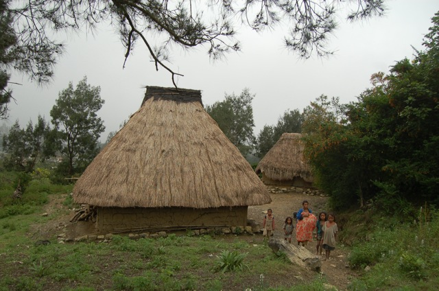 Village in the subdistrict of Maliana, East Timor